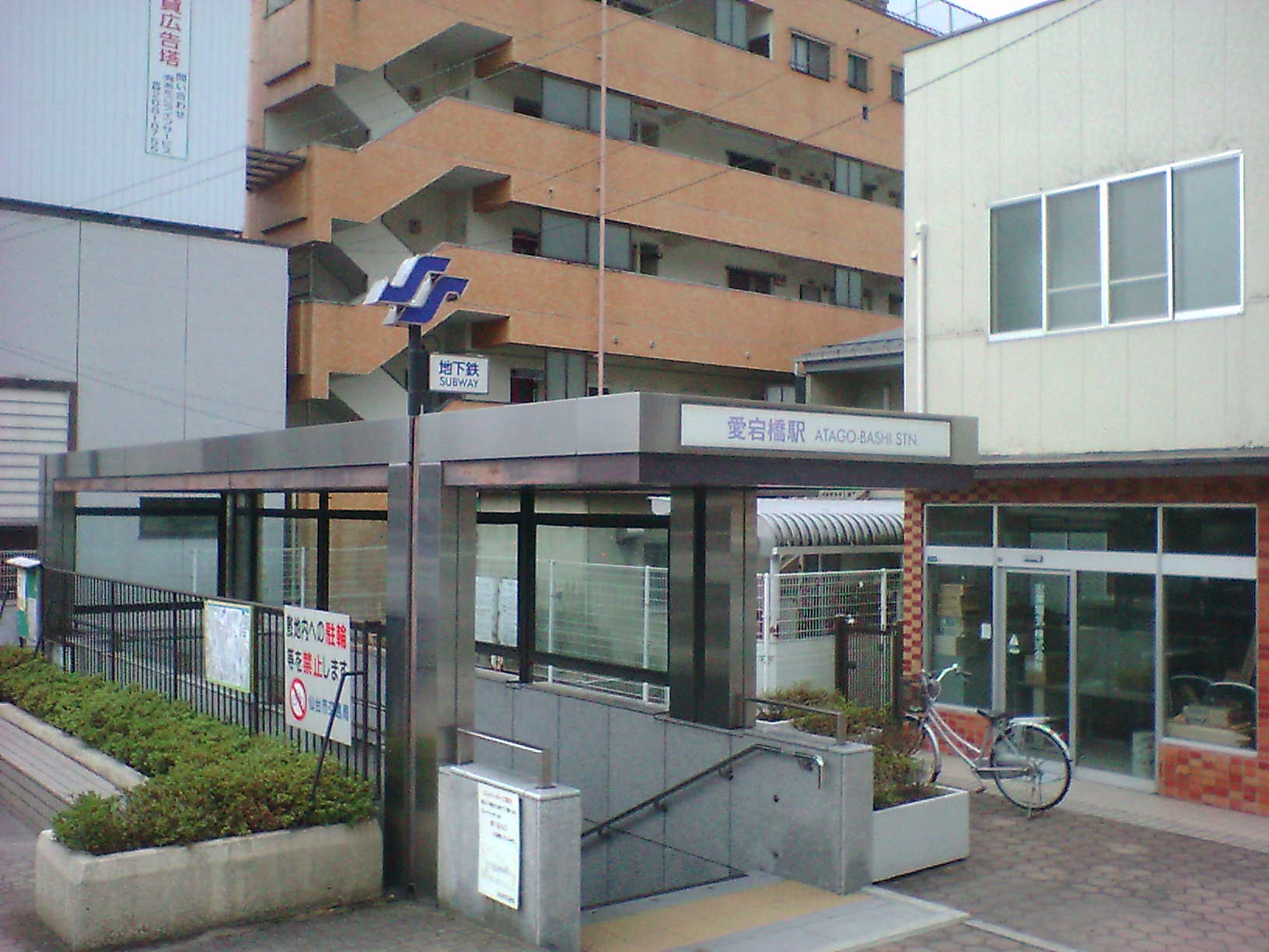 Atagobashi Station in Wakabayashi District, Sendai, Miyagi, Japan.